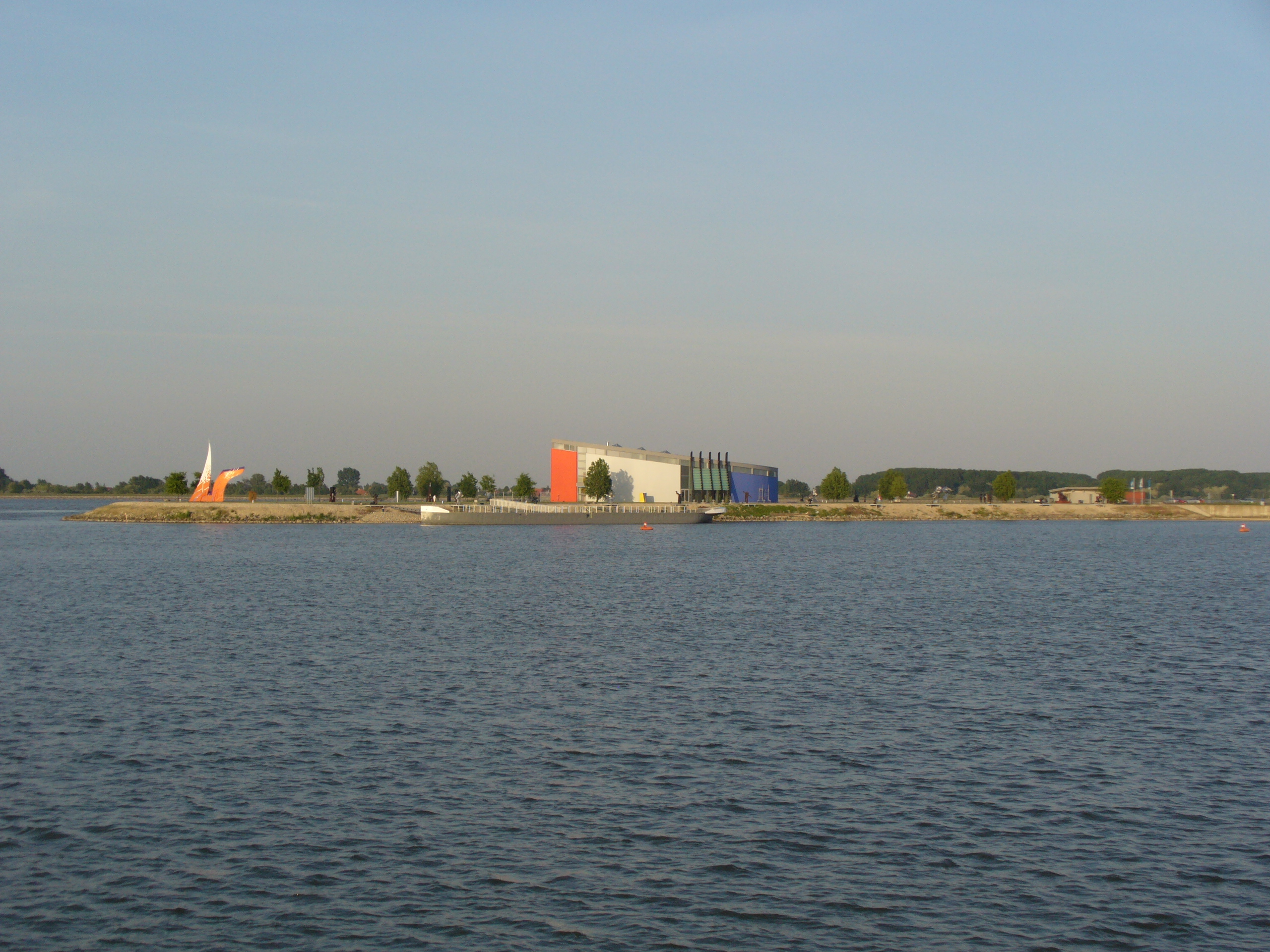 Danubiana Art Museum at the Čunovo waterworks, Bratislava, Slovakia